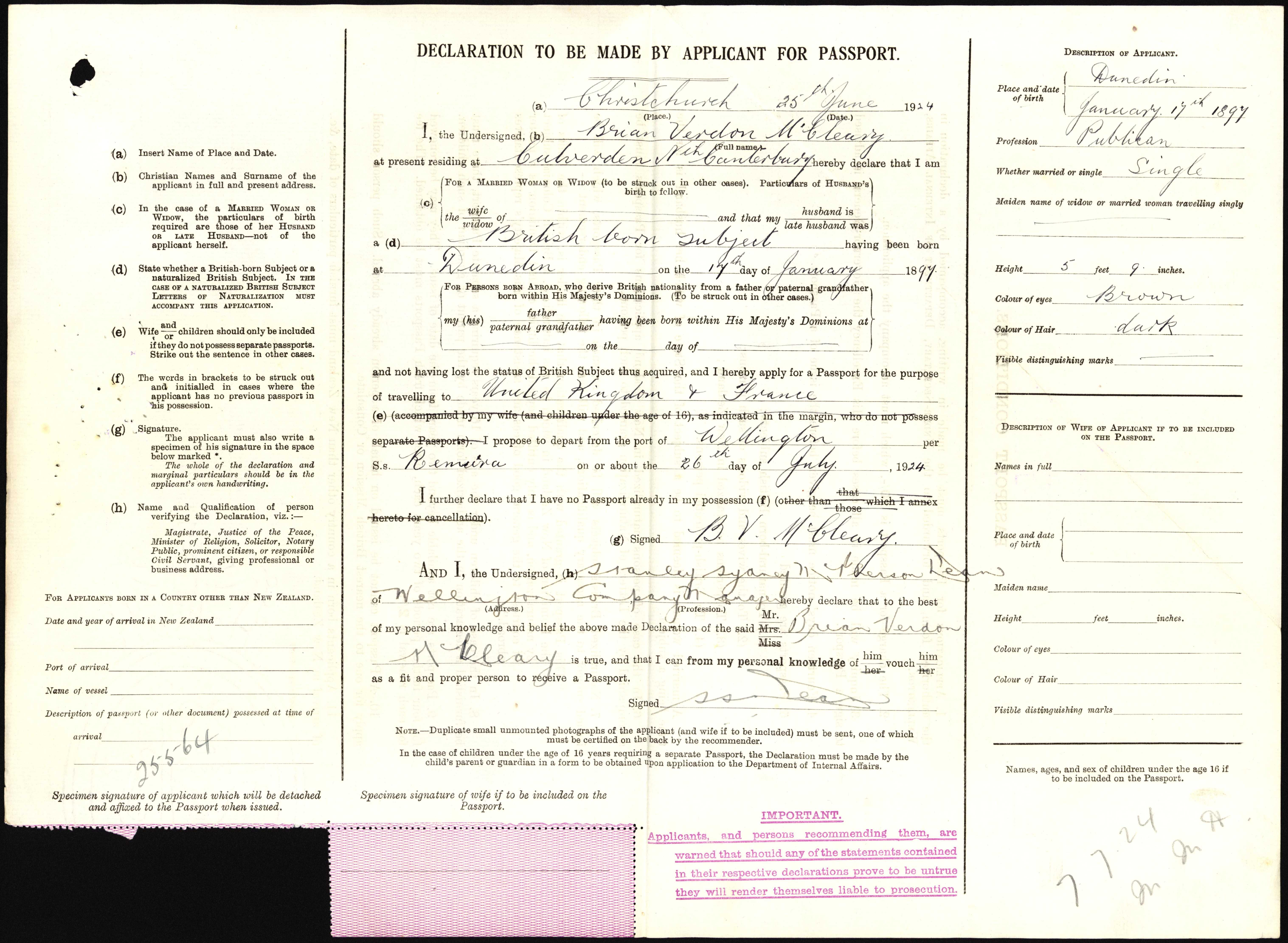 ACGO 8333 IA1 1349 / 15/11/17721 Brian Verdon McCleary passport application (1924)